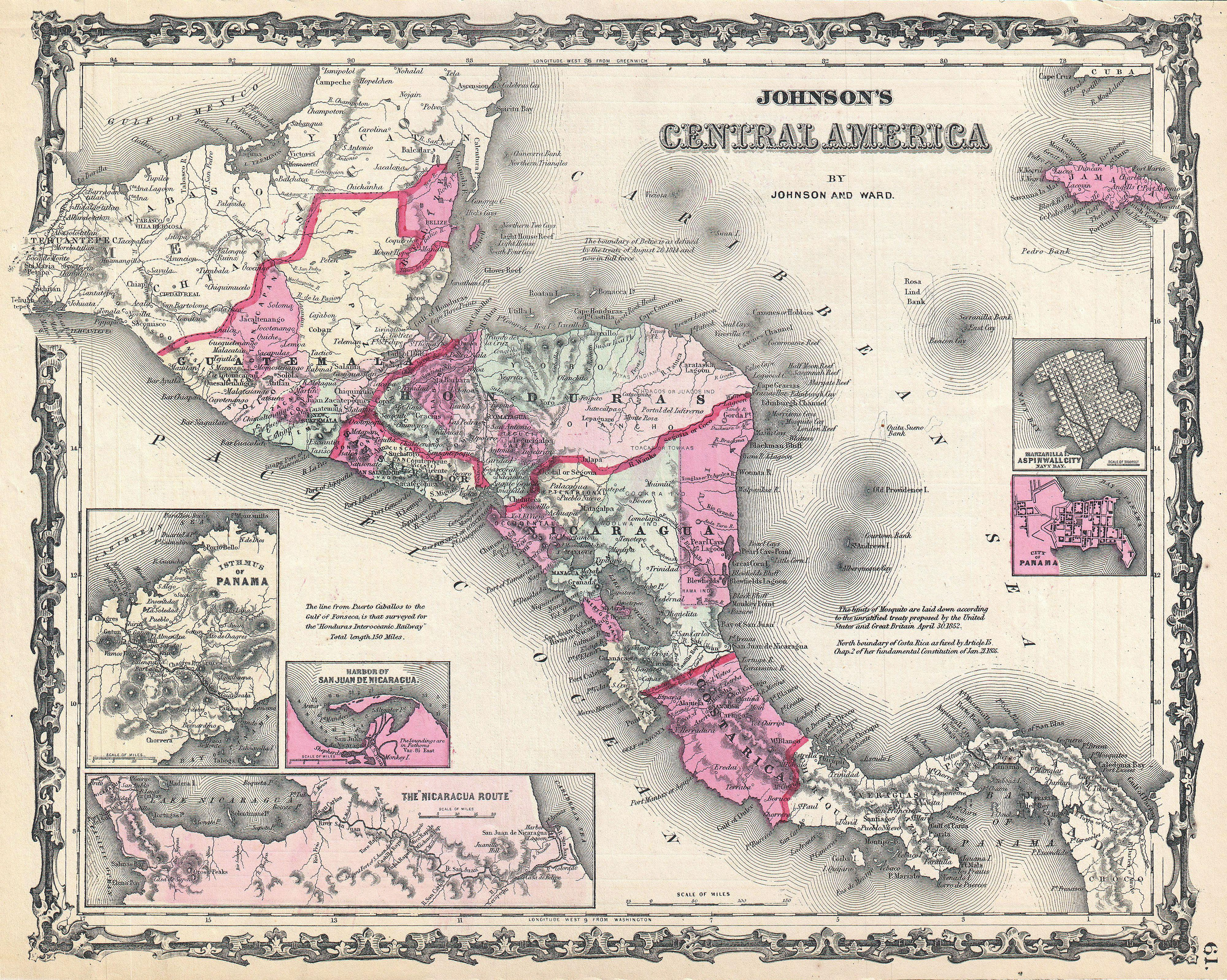 This is A. J. Johnson and Ward’s 1862 map of Central America. Covers Central America from the Isthmus of Tehuantepec, Mexico to the Bay of Panama. Shows the countries of Guatemala, Honduras, El Salvador, Nicaragua, and Costa Rica. Jamaica appears in the upper right corner. Shows proposed roadways, cities, rivers, and ferry crossings. The lower left hand quadrant features three inset maps. In a clockwise fashion from top left these detail the Isthmus of Panama, the Nicaragua Route to the Pacific, and the Harbor of San Juan de Nicaragua. Two additional insets on the right hand side of the map show Aspinwall City and the City of Panama. Features the strapwork border common to Johnson’s atlas work from 1860 to 1863. Based on a similar 1855 map by J. H. Colton. Steel plate engraving prepared by A. J. Johnson for publication as page no. 61 in the 1862 edition of his New Illustrated Atlas… This is the first edition of the Johnson’s Atlas to bear the Johnson and Ward imprint.